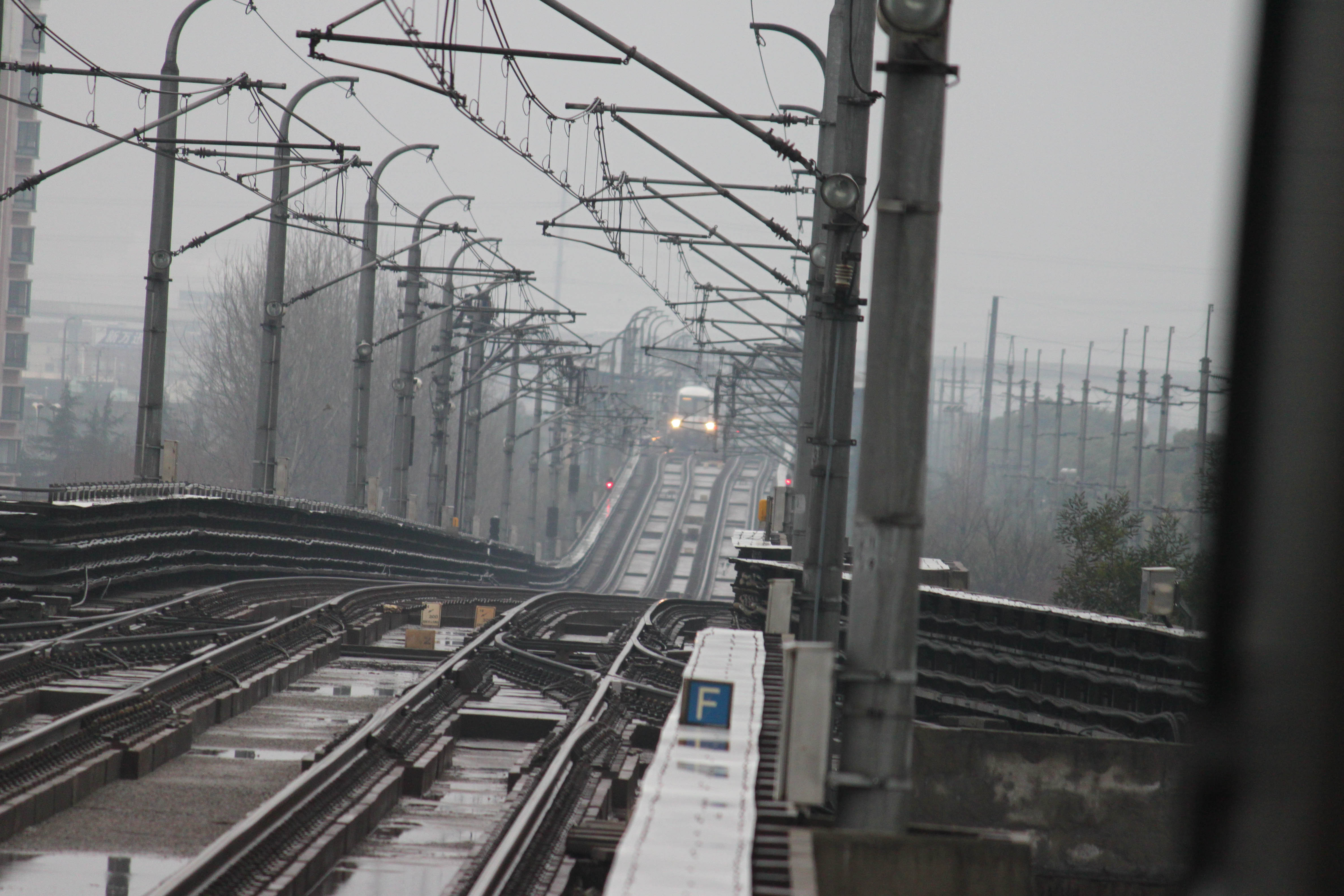 Tracks near Shanghai Rail Transit Dongchuan Road Station